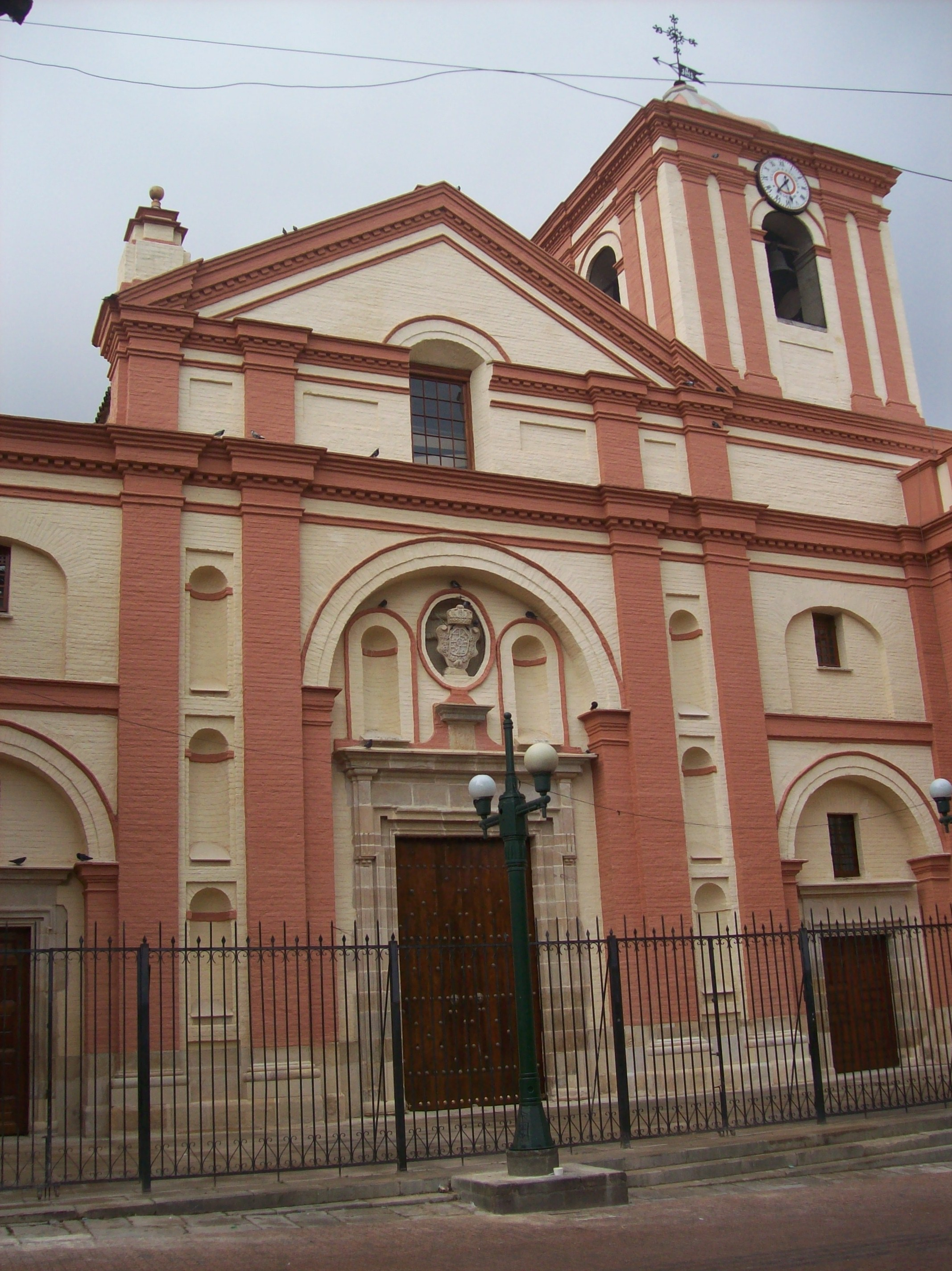 San Ignacio Church, downtown Bogotá